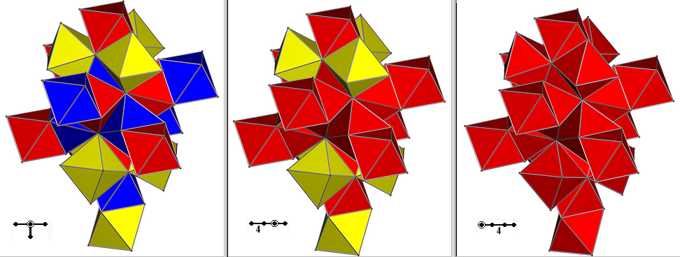 24-cell nets, colored by F4, B4, D4 symmetry The copyright holder of this file, Robert Webb, allows anyone to use it for any purpose, provided that the copyright holder is properly attributed. Redistribution, derivative work, commercial use, and all other use is permitted. Attribution: Attribution must be given to Robert Webb's Stella software as the creator of this image along with a link to the website: A complimentary copy of any book or poster using images from the Software would also be appreciated where feasible. This work is free and may be used by anyone for any purpose. If you wish to use this content, you do not need to request permission as long as you follow any licensing requirements mentioned on this page.